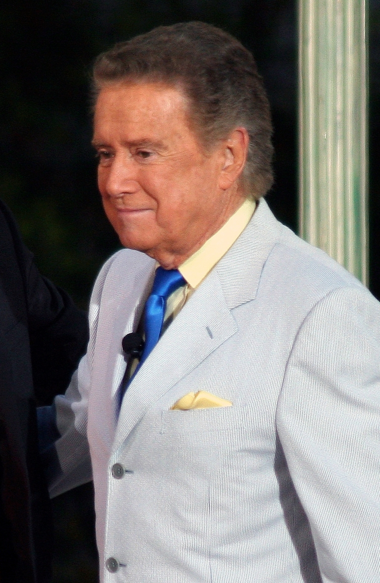 Image of American television personality Regis Philbin, cropped from an image of Philbin with singer Jesse McCartney on Live! with Regis & Kelly, April 7, 2009. Originally captioned: "Regis Philbin was never young in 2009".